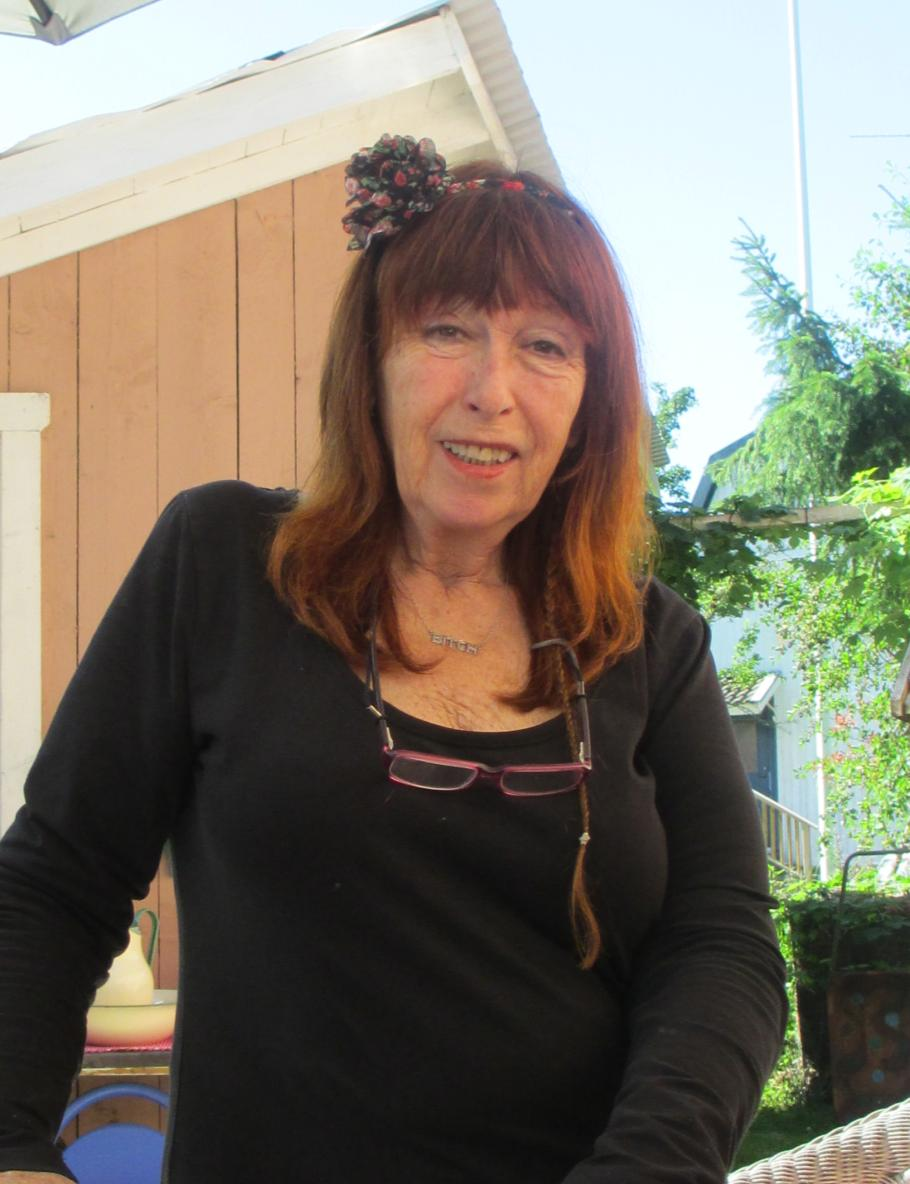 Swedish actress & singer Lena Maria GårdenäsPlace: Hullaryd, Sweden